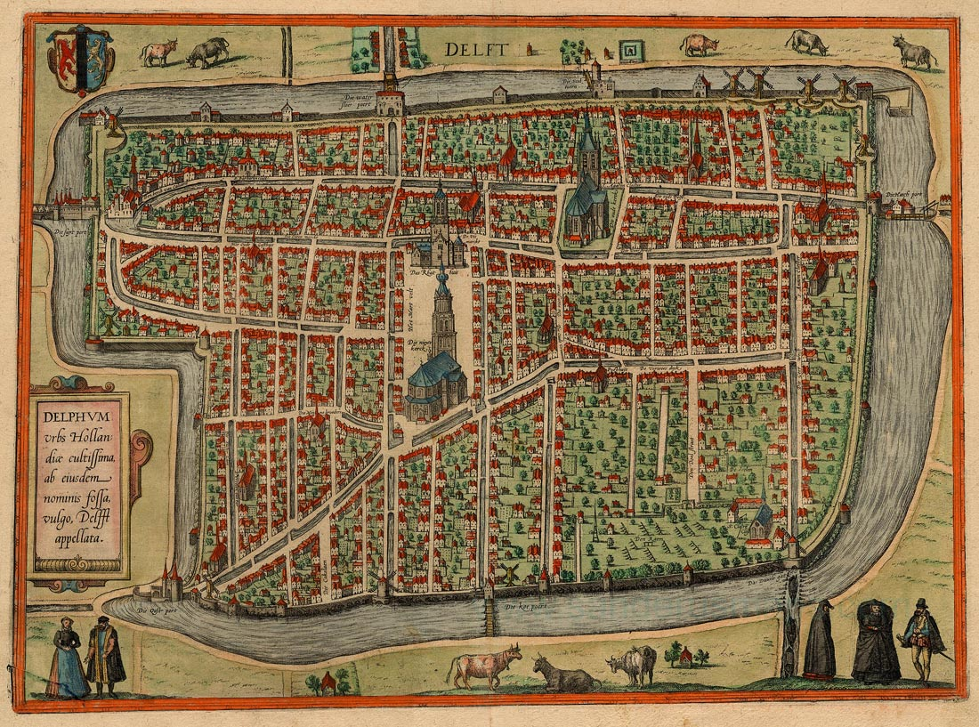 Map of Delft by Braun and Hogenberg